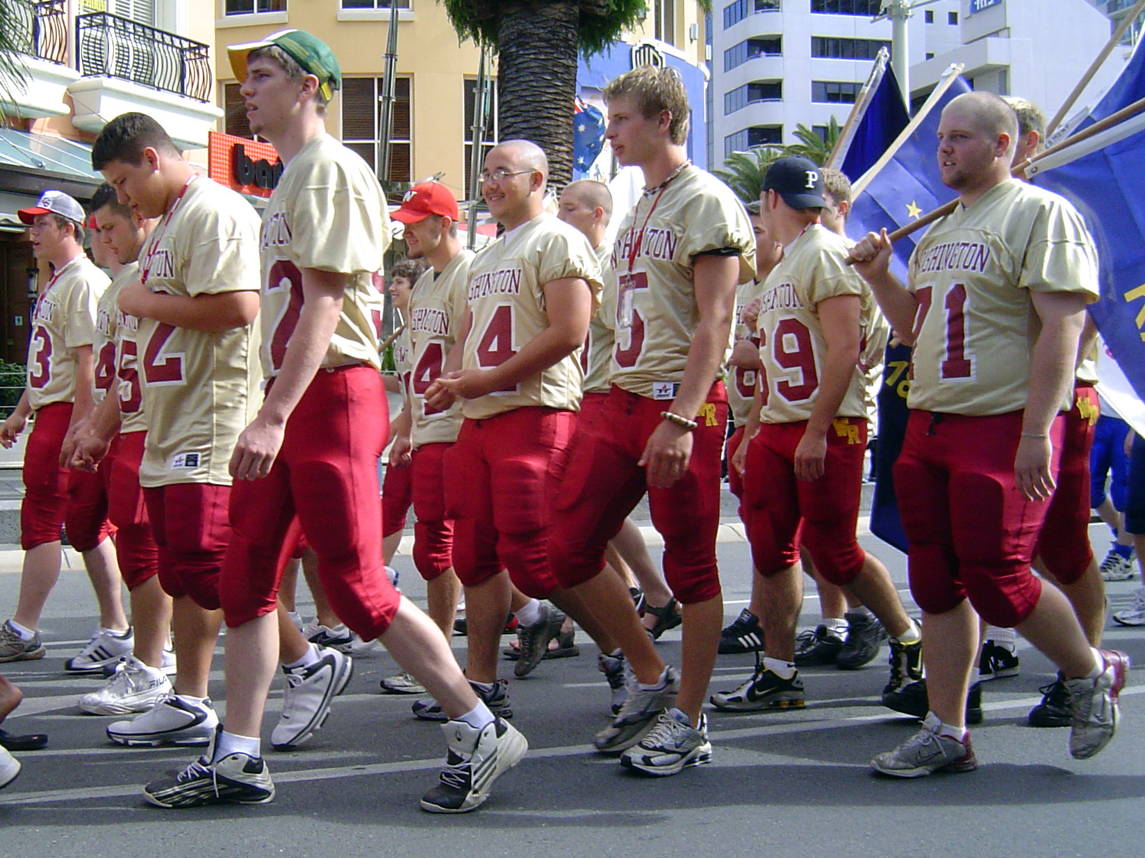 Wisconsin team at the Down Under Bowl 2005 athletes march.